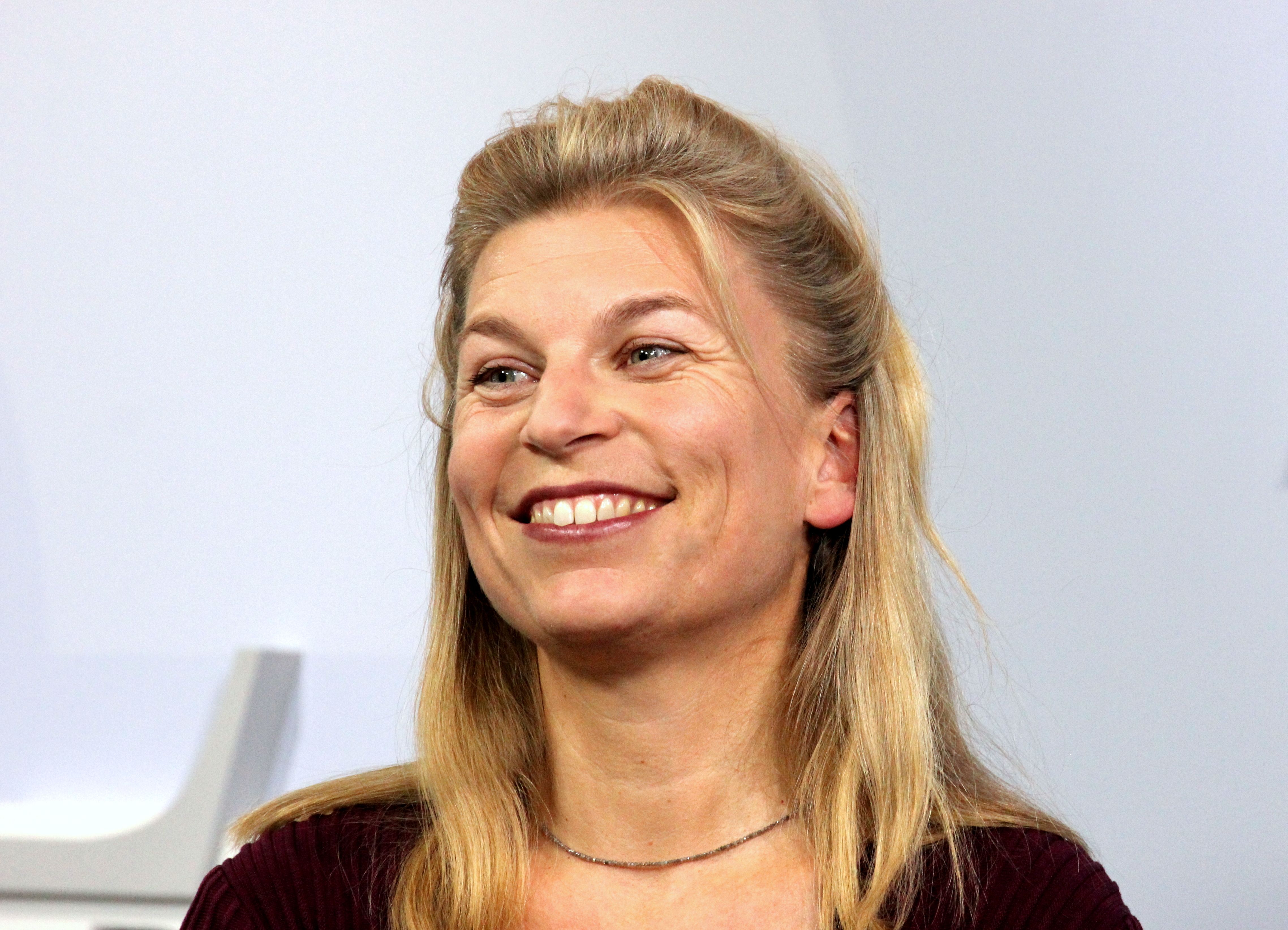 Katharina Hagena Frankfurt Book Fair 2016